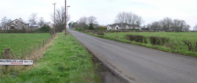 Ballybollen Townland Looking north. Ballybollen Lane is not indicated on the map.